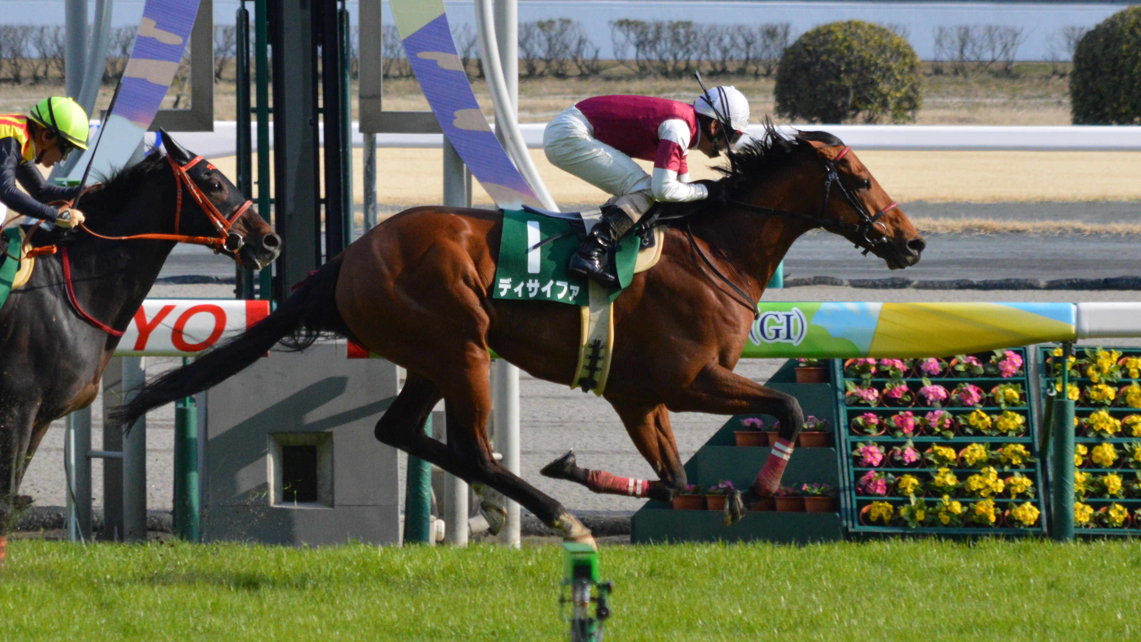 Japanese race horse Decipher at Chukyo racecourse. Chukyo (JPN) 14 Mar 2015 Chunichi Shimbun Hai (Grade 3 Handicap) (4yo+) (Turf) 1m2f Firm RankHorse NameOddsAgeWgtTrainerJockey1stDecipher (JPN)7/1H69-0Futoshi KojimaHirofumi Shii2ndDeus Vult (JPN)19/5G78-9Osamu HirataYuga Kawada3rdMeiner Milano (JPN)123/10H58-9Ikuo AizawaDaichi Shibata4th - 18th/omission